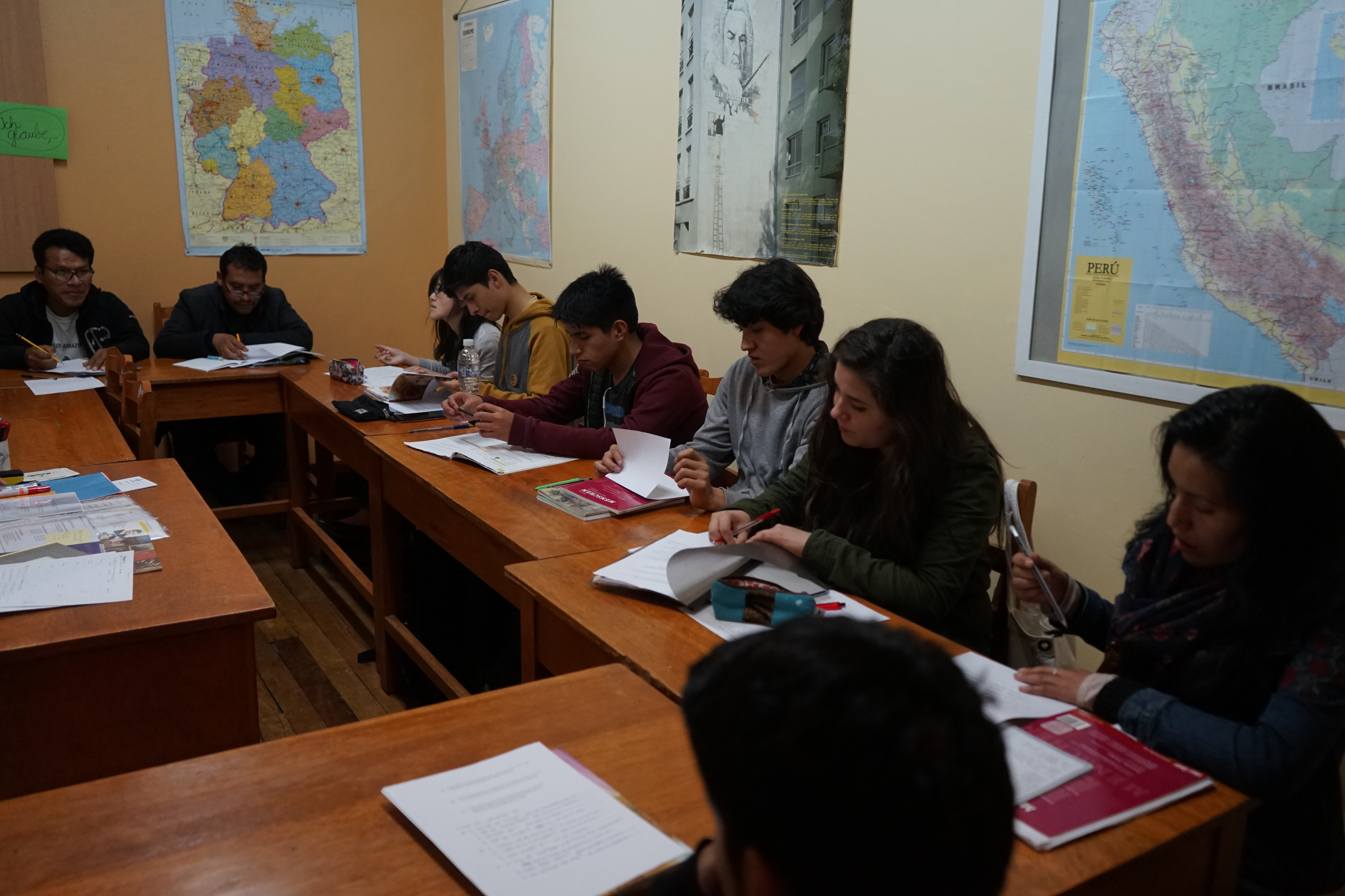 Classroom View